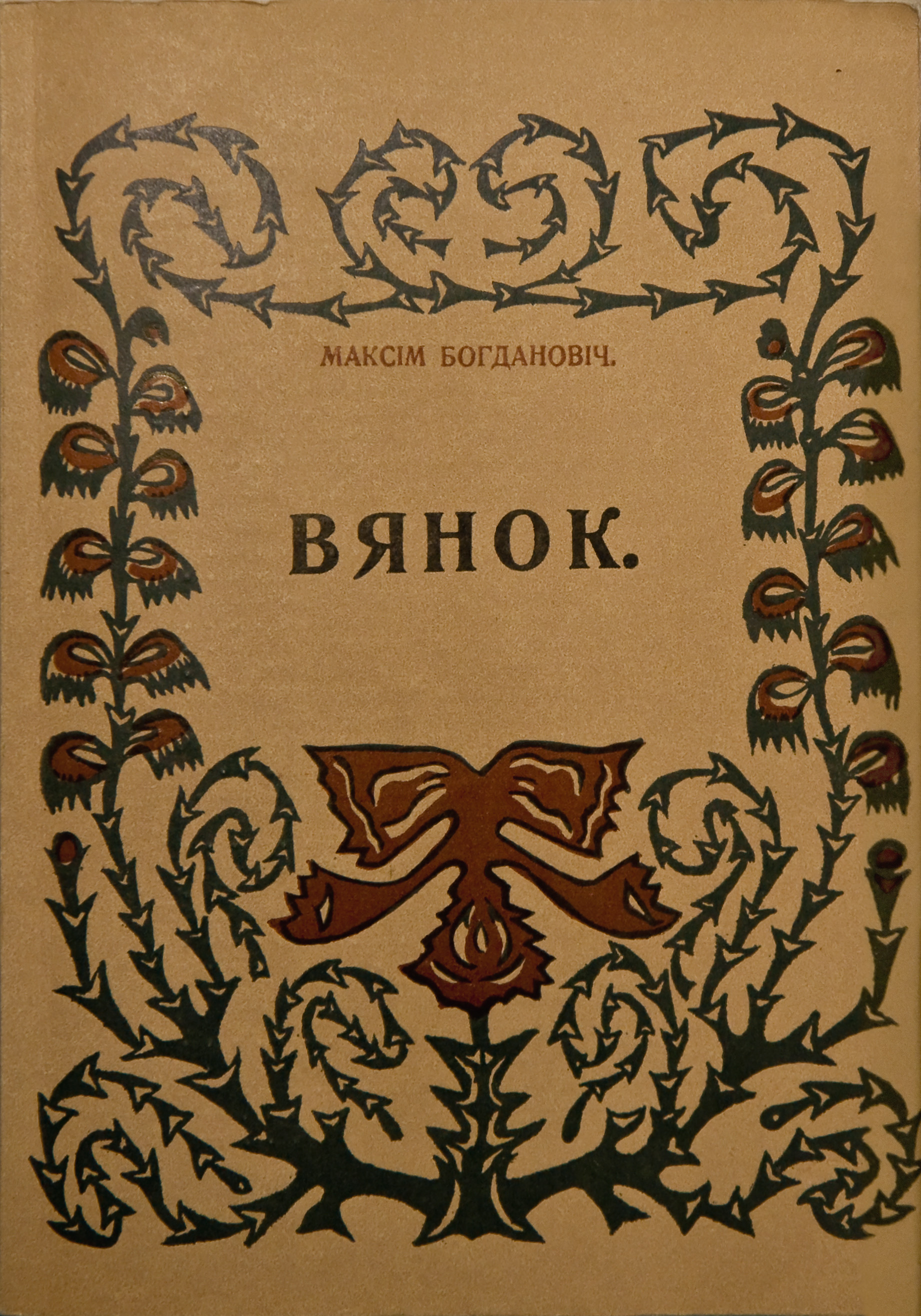 The front cover of the facsimile edition of Vianok by Maksim Bahdanovič, 1914. The author or the picture of the front cover is not stated in the original edition. Vaclaw Lastowski (1883 - 1938) writes in his memories that this picture for the edition was taken from his collection and made by one of the students of Štyhlicaŭskaja school in 1905, whose name Lastowski can't remember in his memories [1]be. According to this the work is considered to be published anonymously more than 50 years ago and is in the public domain according to Belarusian Copyright Law. Беларуская (тарашкевіца): Пярэдняя вокладка факсымільнага выданьня зборніка вершаў «Вянок» Максіма Багдановіча, 1914. Аўтар выявы на пярэдняй вокладцы не пазначаны ў арыгінальным выданьні. Вацлаў Ластоўскі (1883—1938) піша ў сваіх успамінах, што выяву для выданьня ён пазычыў з сваёй калекцыі, а зрабіў яе адзін з вучняў Штыгліцаўскай школы, чыйго прозьвішча ён ня памятае [2]. На гэтай падставе твор можна лічыць апублікаваным ананімна больш за 50 гадоў таму, на падставе чаго ў адпаведнасьці з Законам Рэспублікі Беларусь аб аўтарскім праве твор знаходзіцца ў грамадзкай уласнасьці.